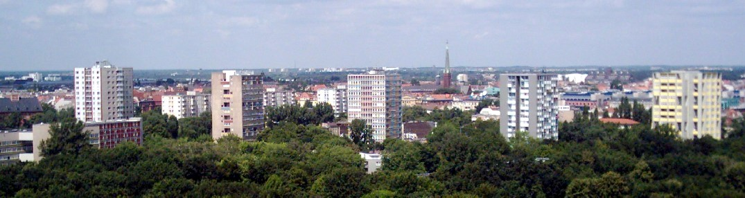 Panorama of the Hansaviertel, Berlin-Mitte